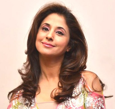 Urmila Matondkar at the Lakme Fashion Week 2012 on day 3.